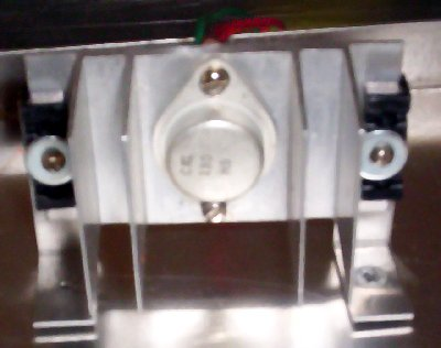 A transistor or voltage regulator in a TO-3 "metal can" package, attached to a heat sink